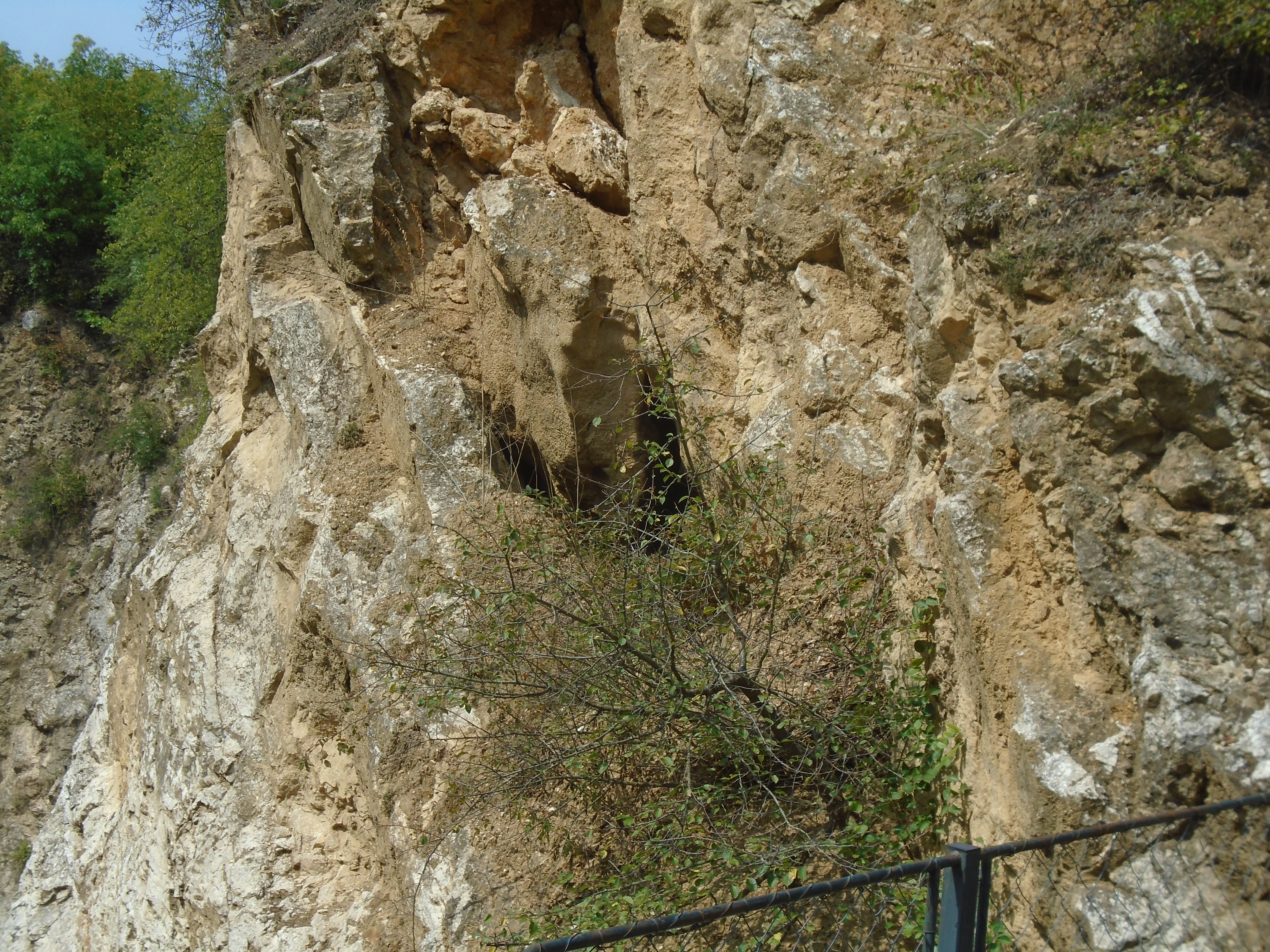 Entrance of Amfiteátrum No 2 Cave.